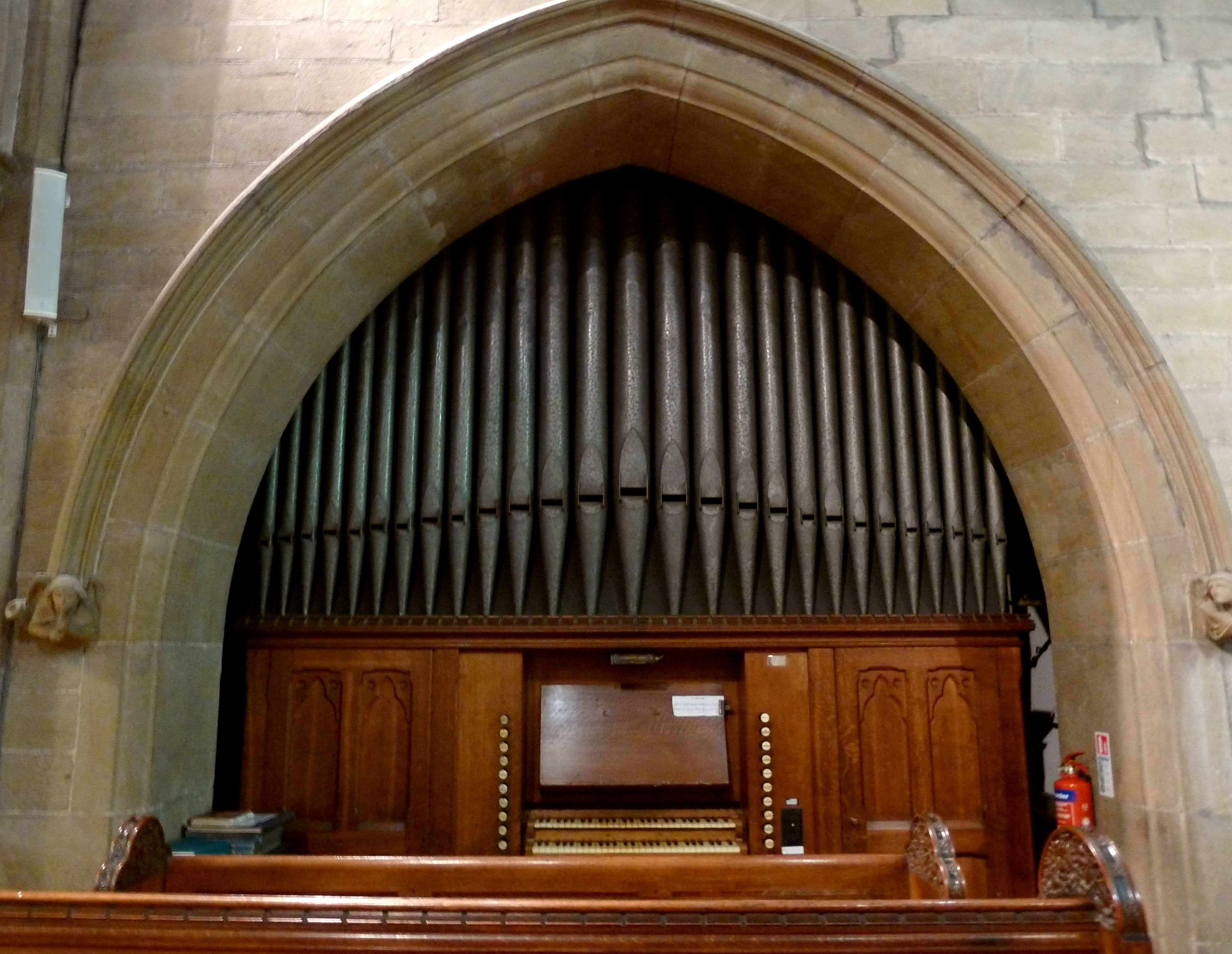 St Michael and All Angels Church, Beckwithshaw, North Yorkshire, England. Organ. To fit the organ into the church, the Victorian architect had to construct a purpose-built arch in the south wall of the chancel, then build a lean-to organ housing behind it, and the organ fitted exactly inside. A neat result which looks good from the outside.